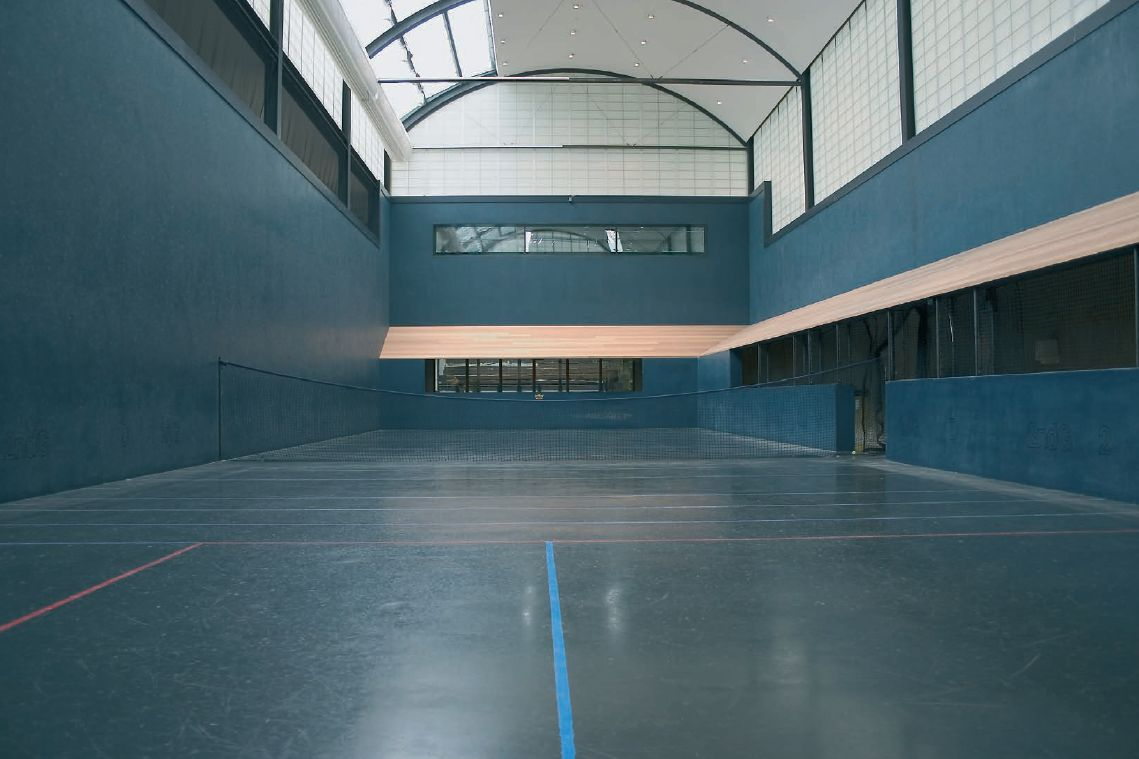 Borroughs Club real tennis court in Hendon (Barnet Borough), London, England.